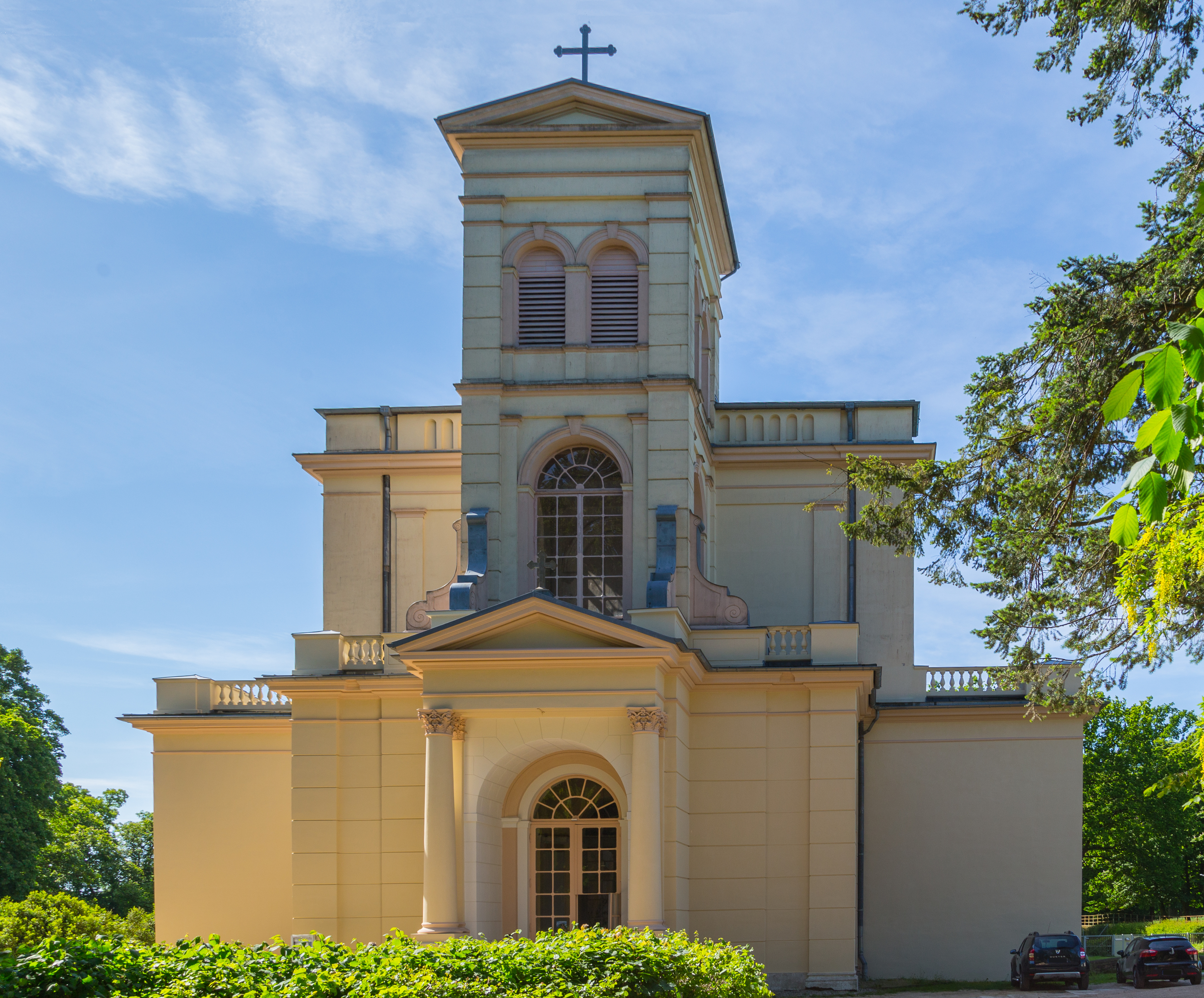 The Protestant Christ Church (Christuskirche) – aka Palace Church (Schlosskirche) – in Putbus, Landkreis Vorpommern-Rügen, Mecklenburg-Vorpommern, Germany. The building is situated at the park and a listed cultural heritage monument.